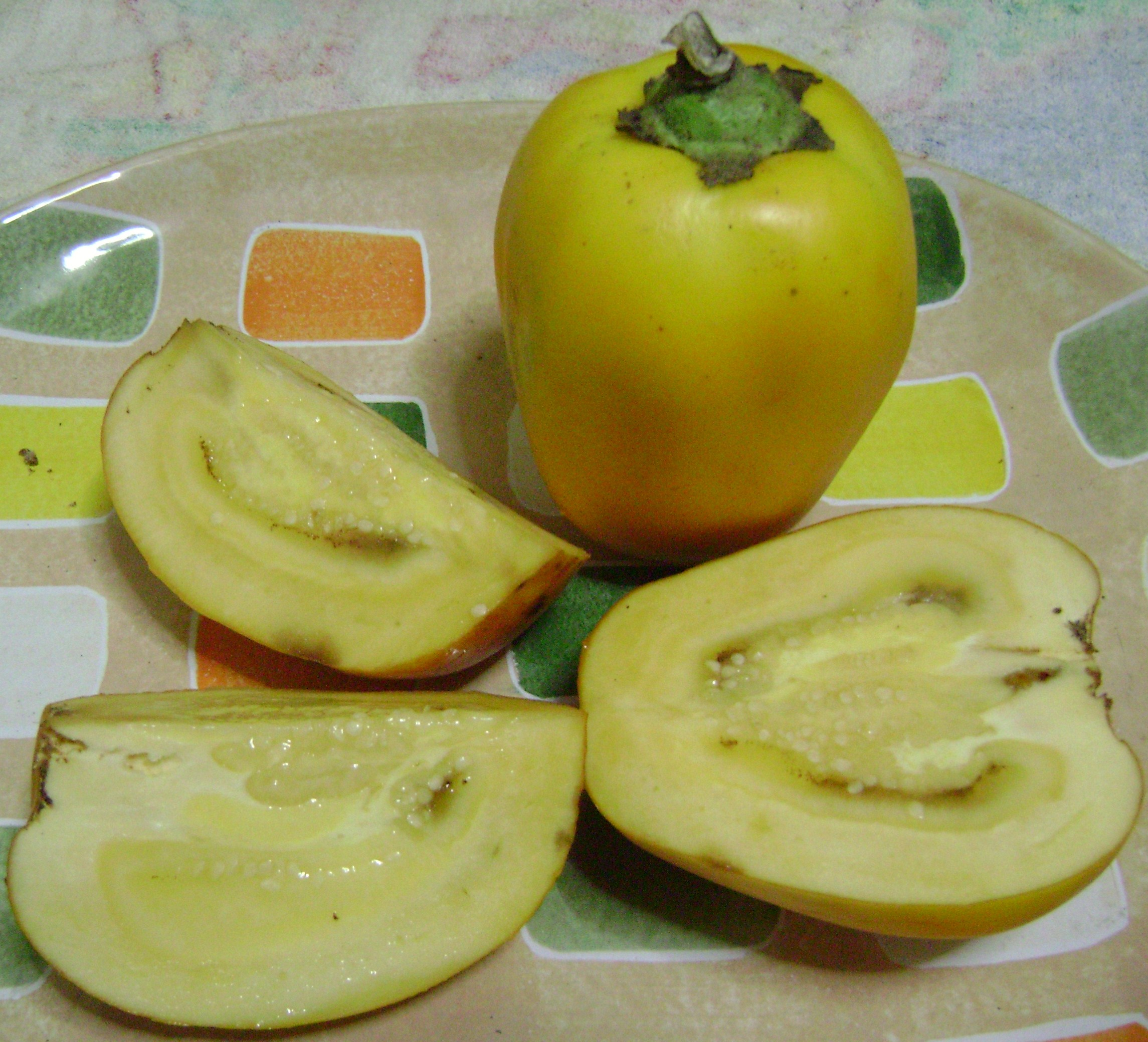 Cocona, whole and sliced fruit.